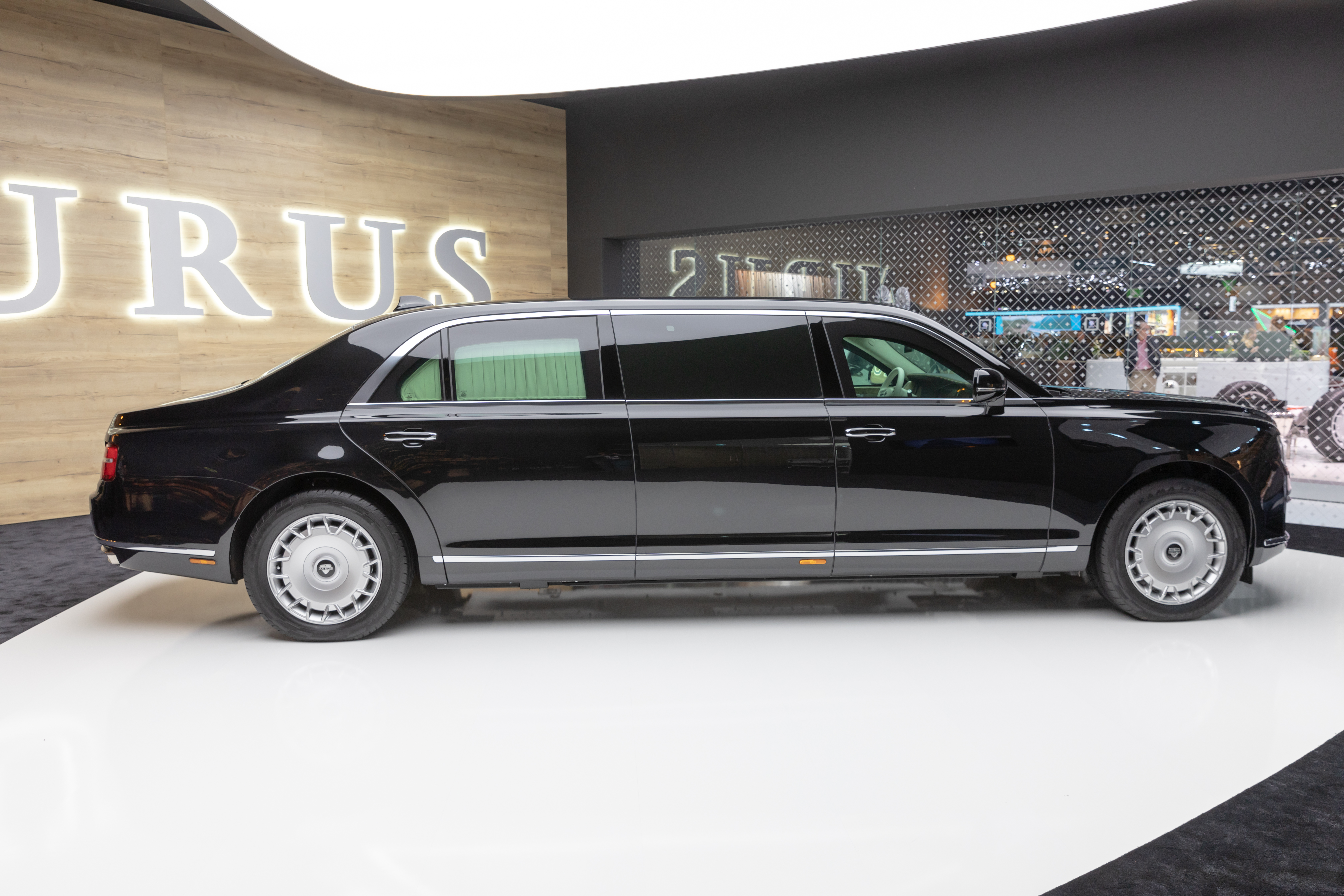 Aurus Senat at Geneva International Motor Show 2019, Le Grand-Saconnex